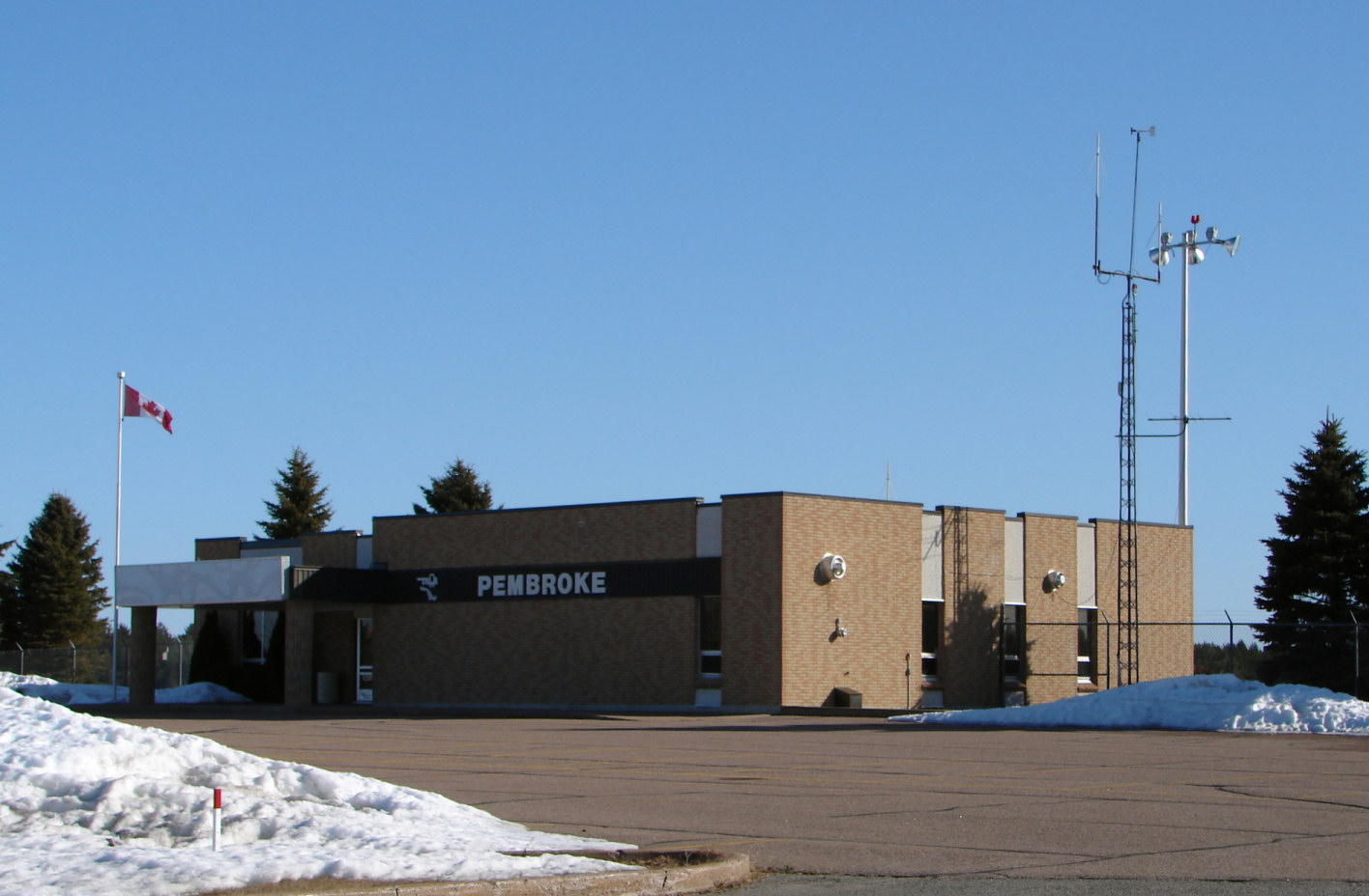 Pembroke Airport, Ontario, Canada